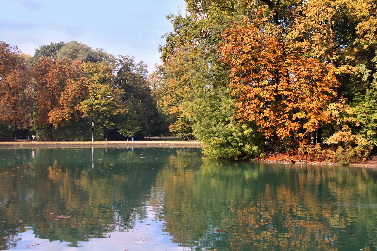 Pest damage - horse-chestnut leaf miner (Cameraria ohridella) in Parco Ducale park, Parma, Italy.